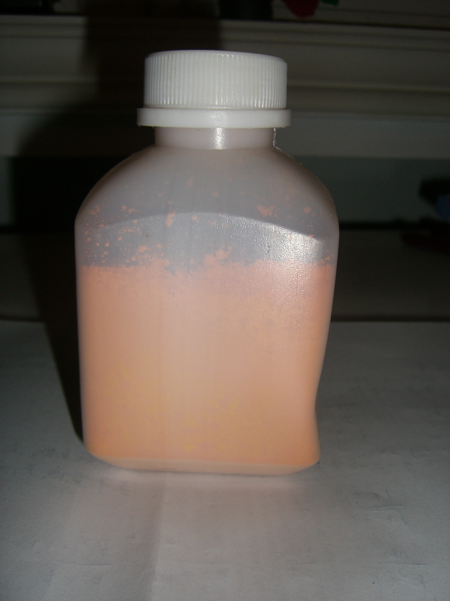 Realgar inside package (As4S4)